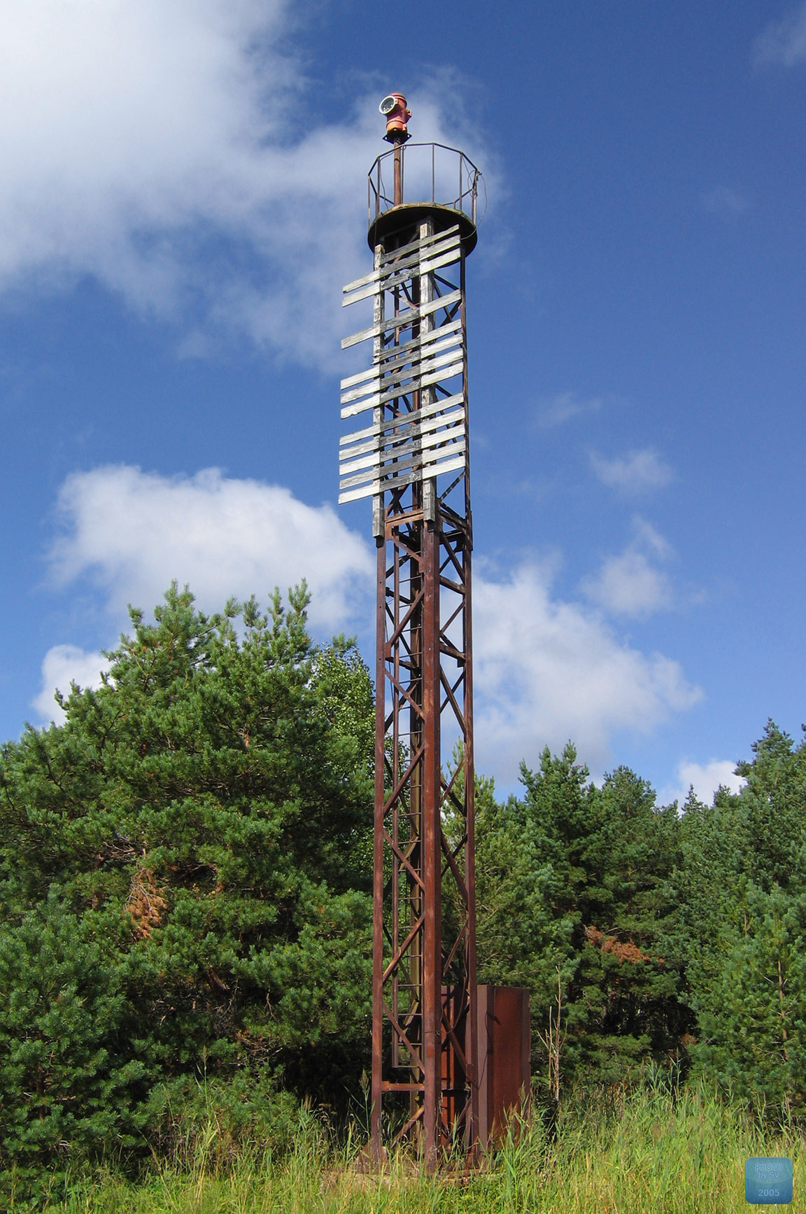 Nasva harbour rear light beacon